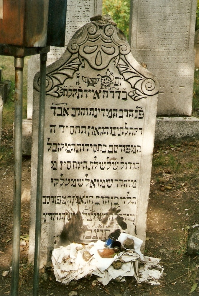 Mikulov (Nikolsburg) a town in Břeclav district, Moravia, Czech Republic. Jewish cemetery, the tombstone of the illustrious Rabbi Shmuel Shmelke Halevi Horowitz of Nikolsburg (Shmelke of Nikolsburg).